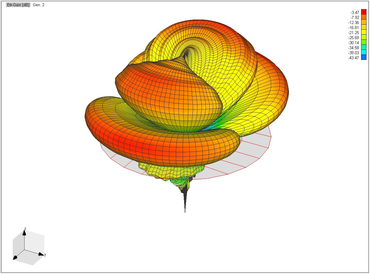 Vertical Polarization at 460MHz due to the excitation of the slot